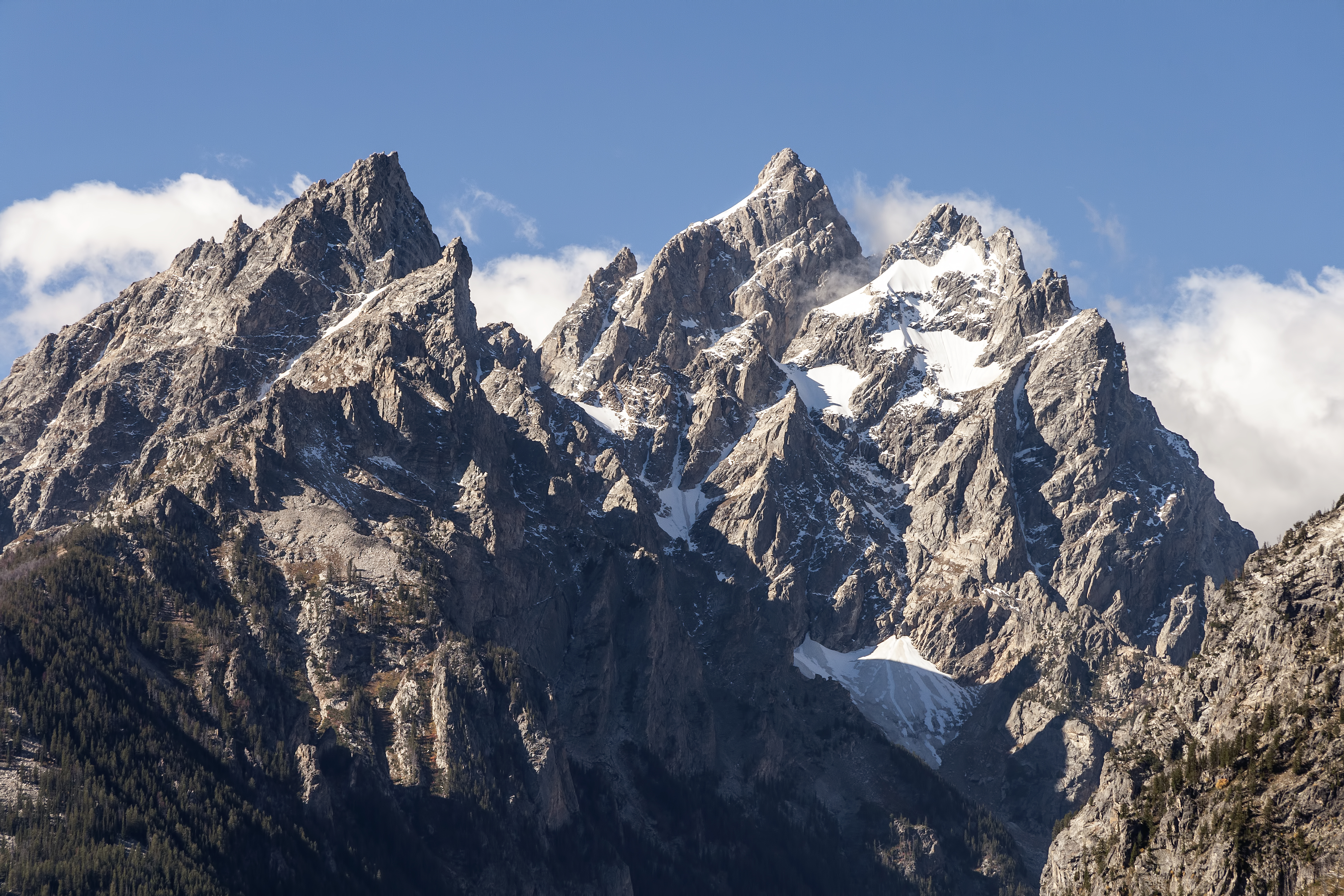 The Cathedral Group in Grand Teton National Park, Wyoming, USA. From left, Teewinot, Teepee Pillar (small spire to left of Grand), Grand Teton and Mt. Owen.